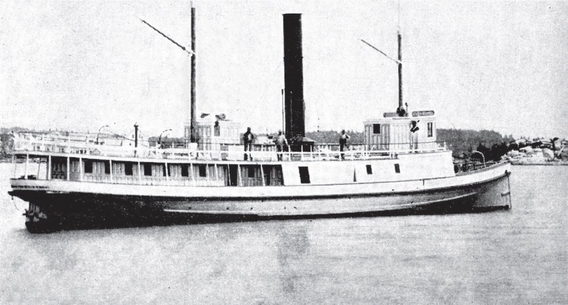 SS Clara Clarita after her conversion to a passenger steamer, ca. 1870s. Probably taken in Penobscot Bay.